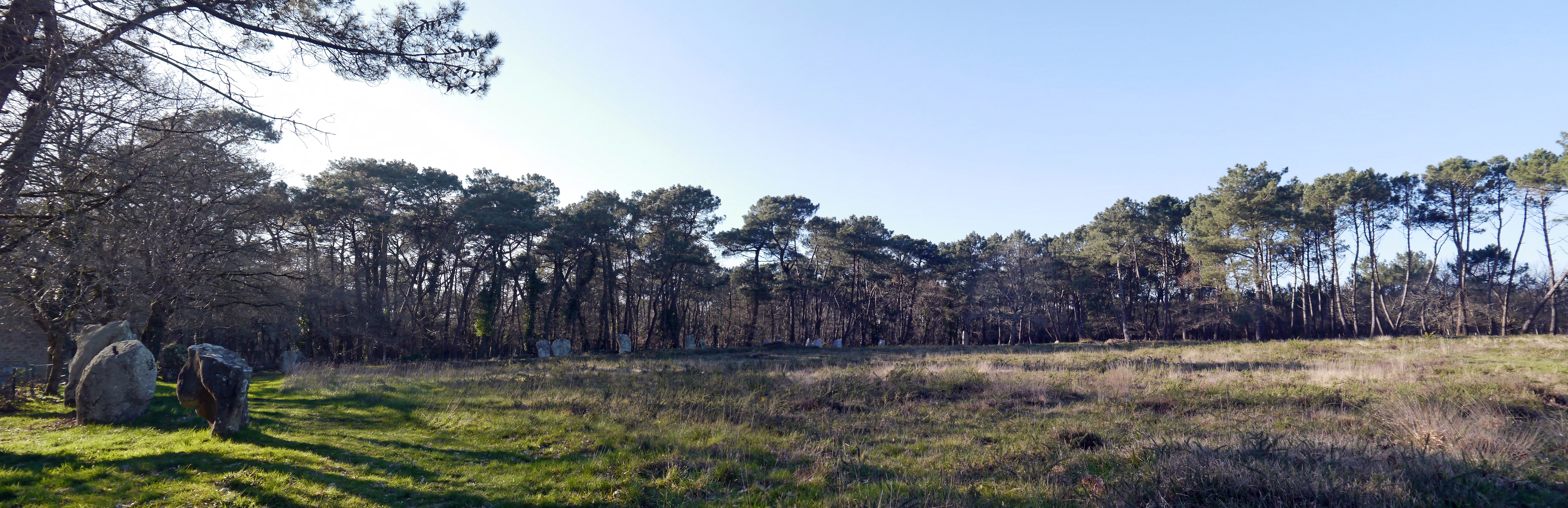 Locmariaquer, France. Alignement de Kerlescan : cromlech sud.